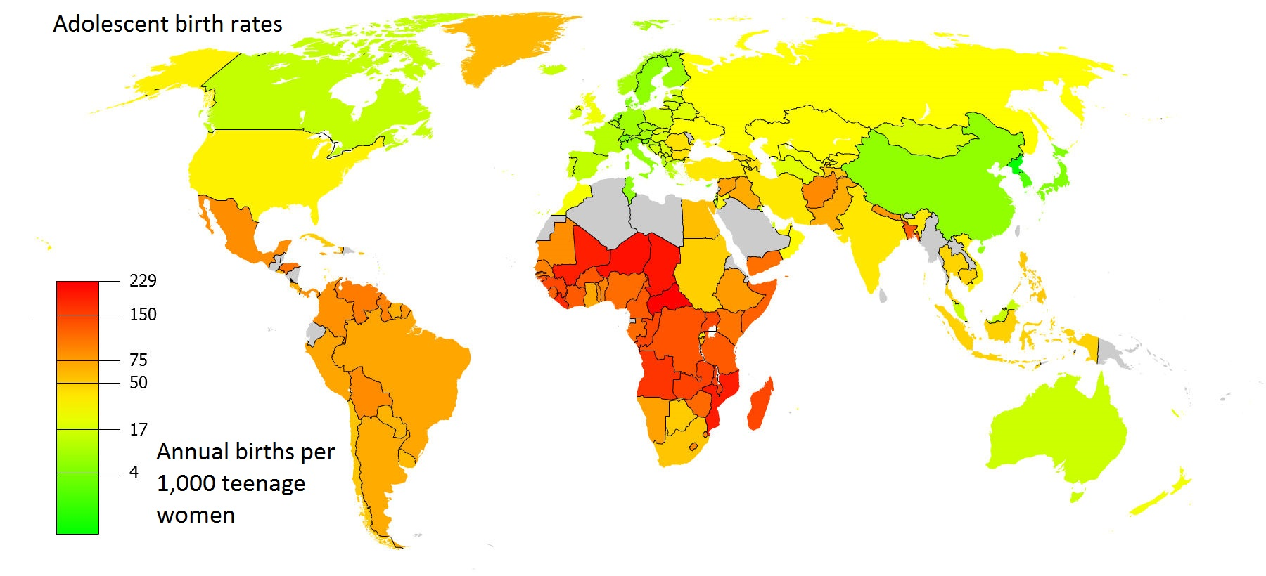 This map presents adolescent birth rate worldwide. The adolescent birth rate is the annual number of births to women aged 15 to 19 per 1,000 women in that age group. The map reflects child marriage in developing and undeveloped countries, civil unions involving teens, and teenage motherhood in developed countries. Gray color: data not available for the country Source: United Nations, Department of Economic and Social Affairs, Population Division, This is from 2013 updated tables for the MDG Database: Adolescent Birth Rate and fertility tables in Chapter 5. Information about data sources, methods of computation, data availability and other details, can be accessed at This map was created with GunnMapGunnMap was created by Arthur Gunn and is available, free, at and attribute by linking to